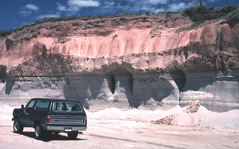 Image of pumice quarry near Ashton on what is known as the Ashton Hill. The Ashton Hill is actually of southern rim of both the Henry's Fork Caldera and the Island Park Caldera.